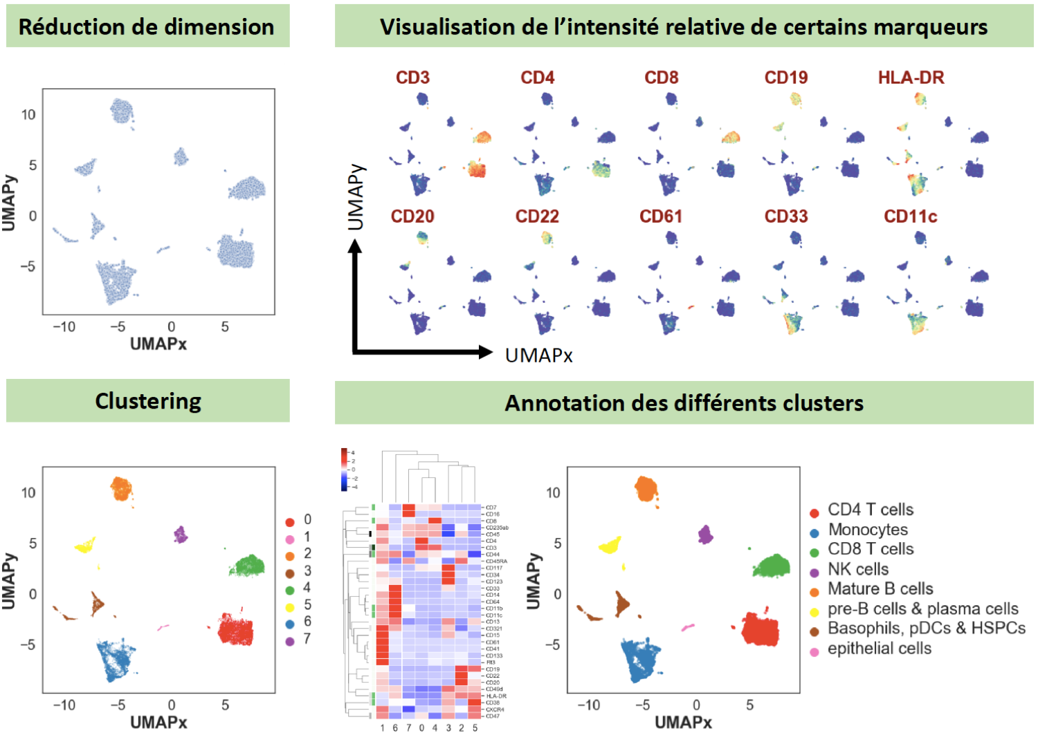 Example of some steps in the analysis and visualization of mass cytometry data (personnal analysis of the file Levine_32dim.fcs obtained from the following website